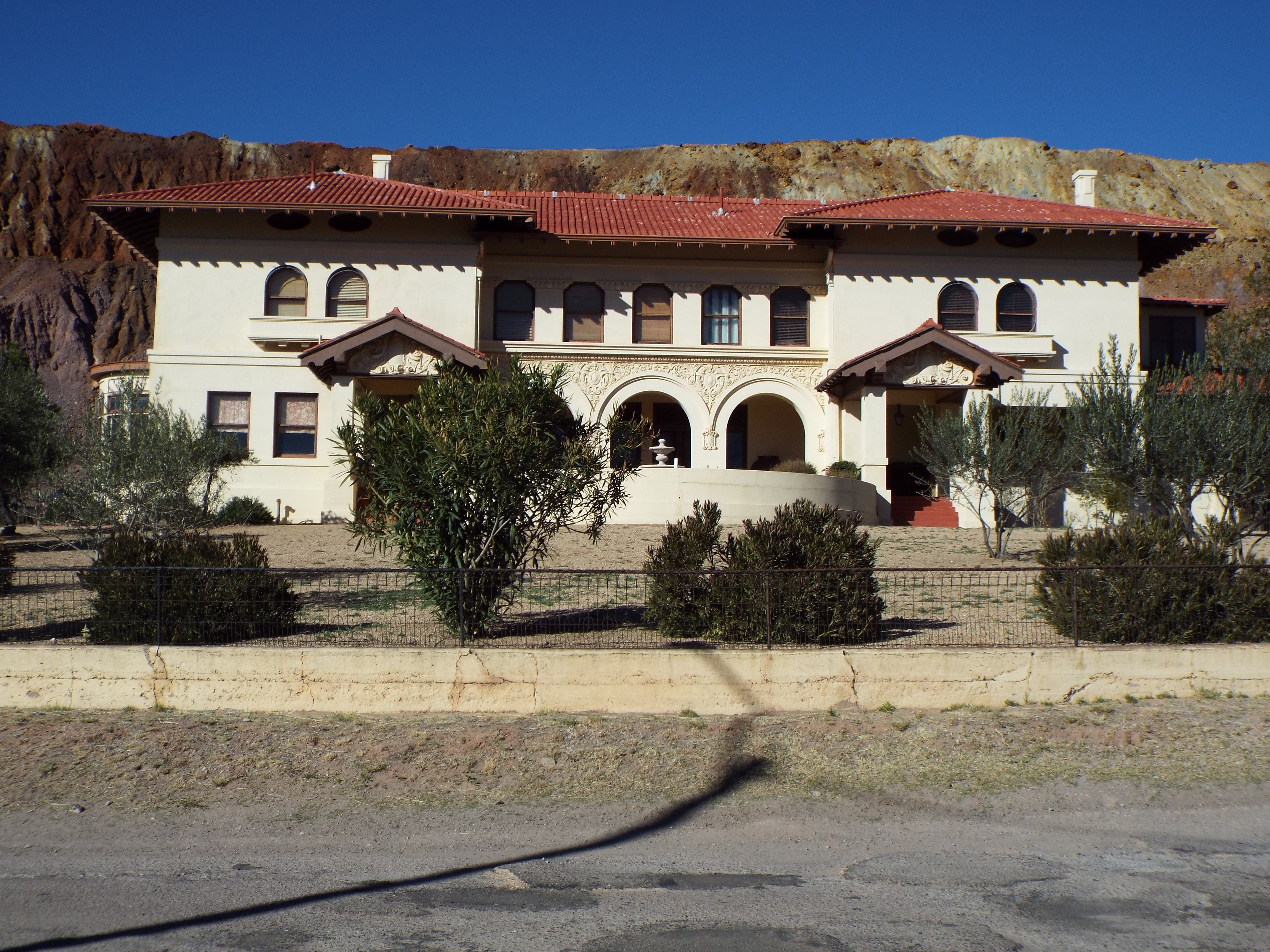 The Walter Douglas House was built in 1908 and is located in 201 Cole Ave. The house was listed in the National Register of Historic Places in September 22, 2000, reference #00001125.